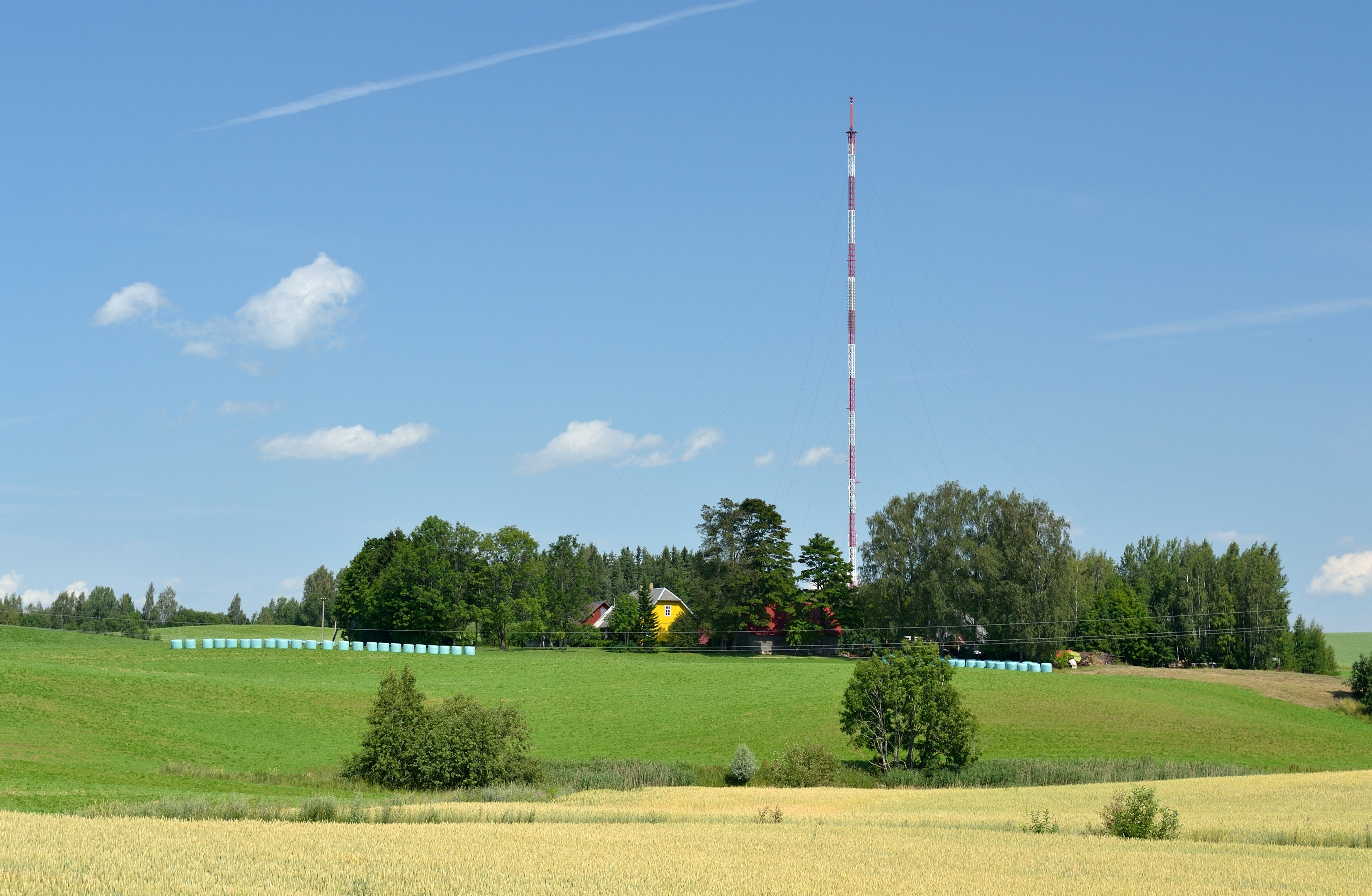 Pikareinu village (Estonia) - Valgjärve TV mast, height 347 meters